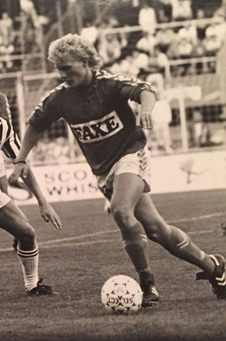 Copenhagen (Denmark), Valby Idrætspark, 13 August 1986. BK Frem v Juventus FC (1-4), friendly game (Frem Centennial Match): Frem's modfielder Kenneth Birkedal in action.